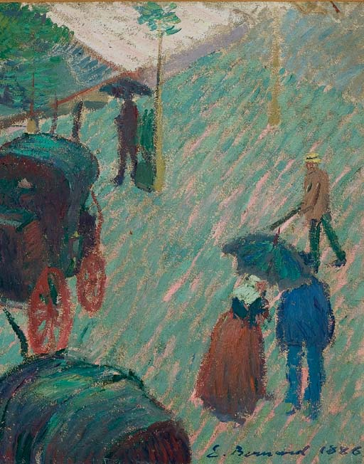 Le jardin public à Mayenne. Signed and dated E. Bernard 1886, oil on canvas, 38 x 46.3 cm